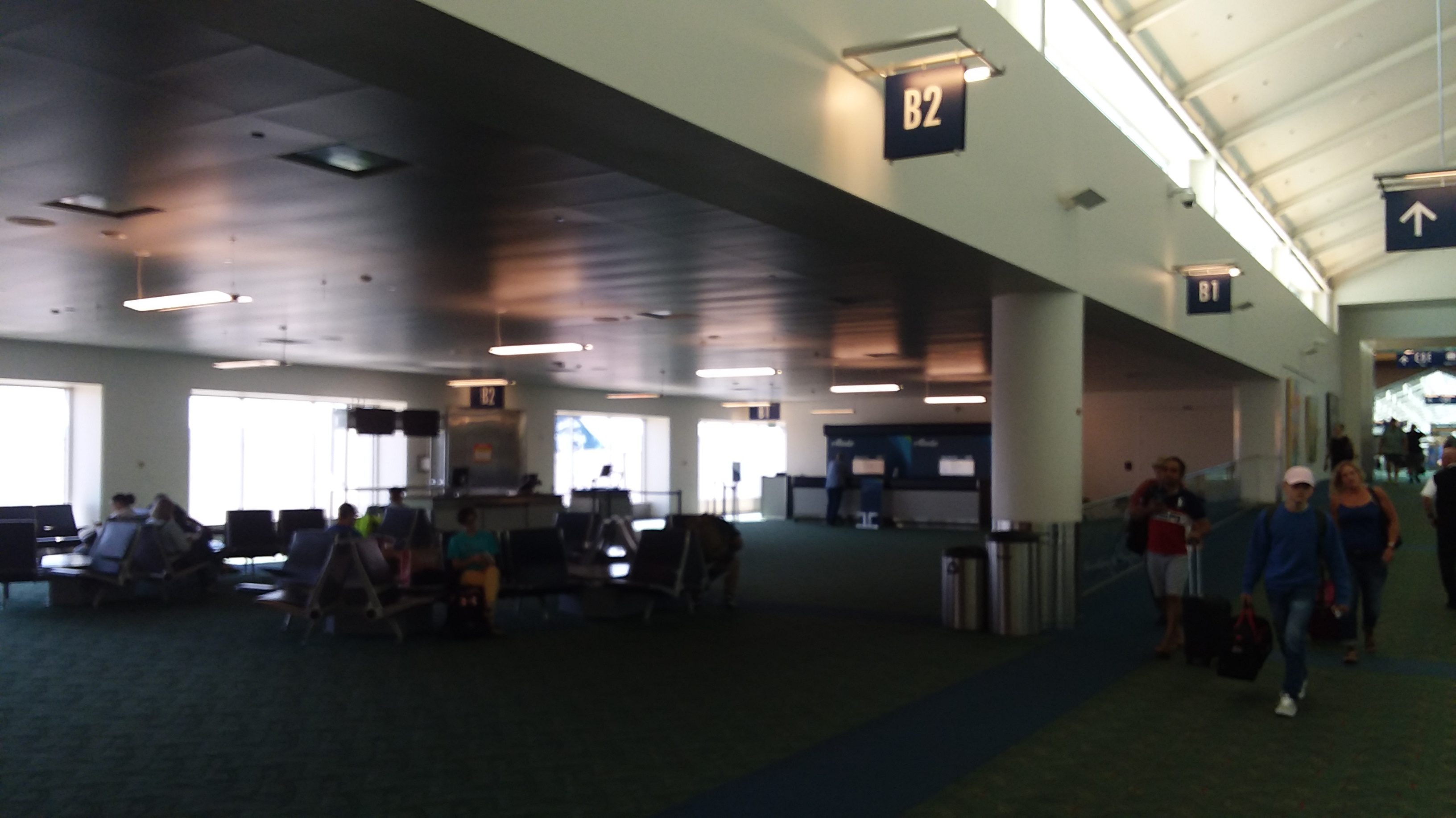 Gates B1 and B2 at PDX